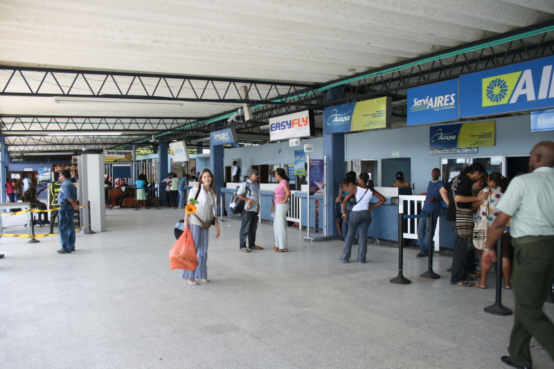 Airpot the Caraño of Quibdo